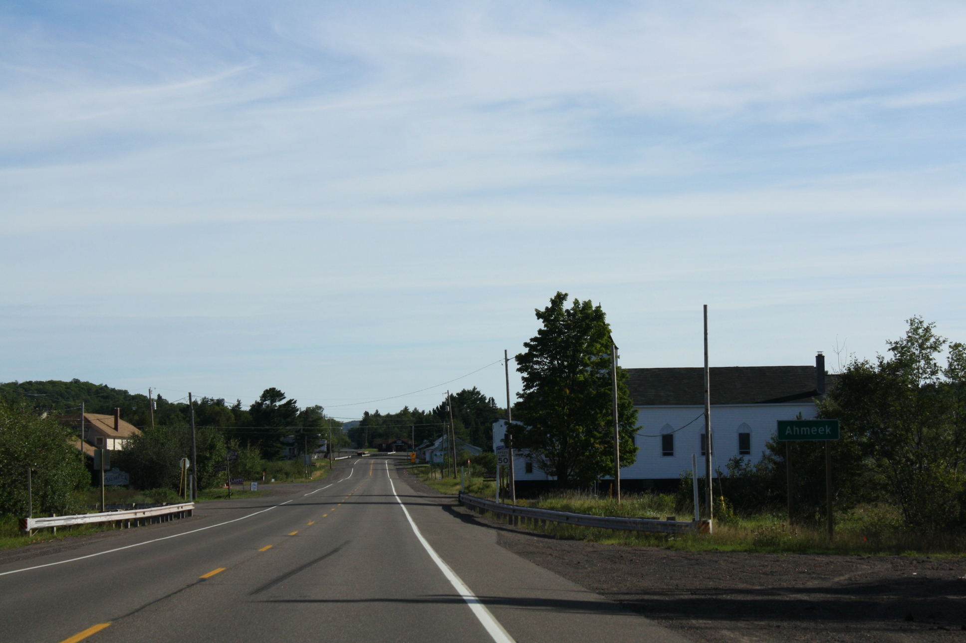 The sign for Ahmeek, Michigan on U.S. Route 41.